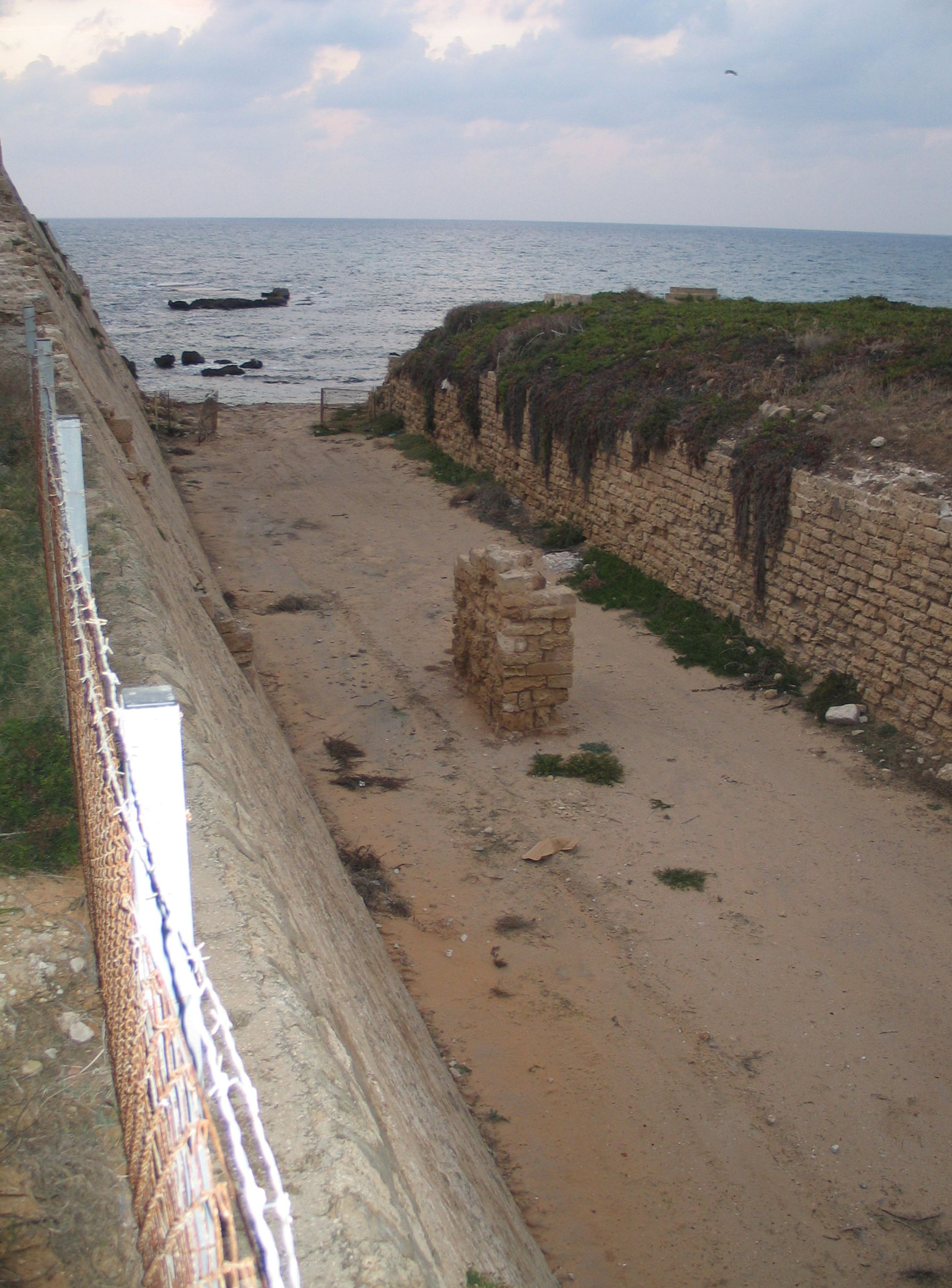 Caesarea Maritima, Israel. Northern moat.